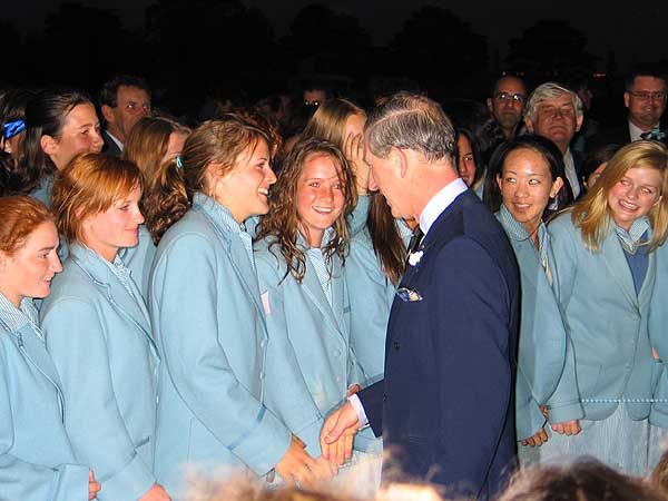 Charles, Prince of Wales, visits Geelong Grammar School, in Corio, Victoria.